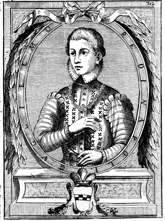 Engraving depicting William III of Sicily (from Giovanni Antonio Summonte's Historia della città, e regno di Napoli